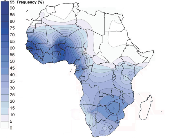 African spatial distribution of haplogroup E3a-M2. All material published in these journals is CC-BY-2.0 and may be used and reproduced without special permission. However, anyone using the material is requested to properly cite and acknowledge the source.